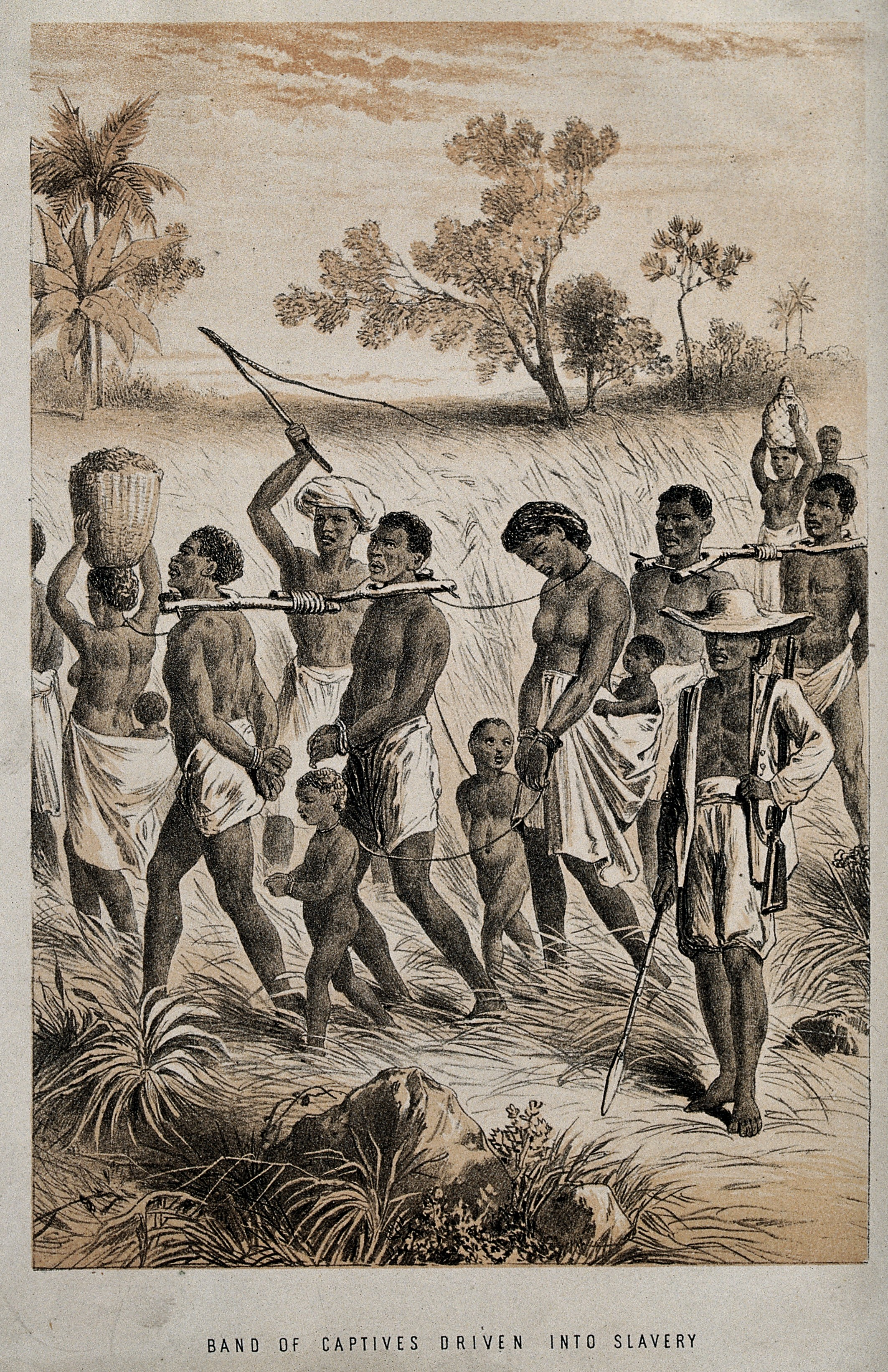 Group of African men, women and children captured and in shackles, are herded by men with whips and guns in order to become slaves. "Band of captives driven into slavery" Iconographic Collections Keywords: Restraint, Physical; Social Problems; Slaves; Slavery; Chain